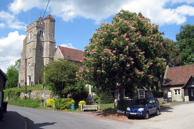 All Saints Church, High Street, Birling, Kent, near to Birling, Kent, Great Britain. Grade I listed Link